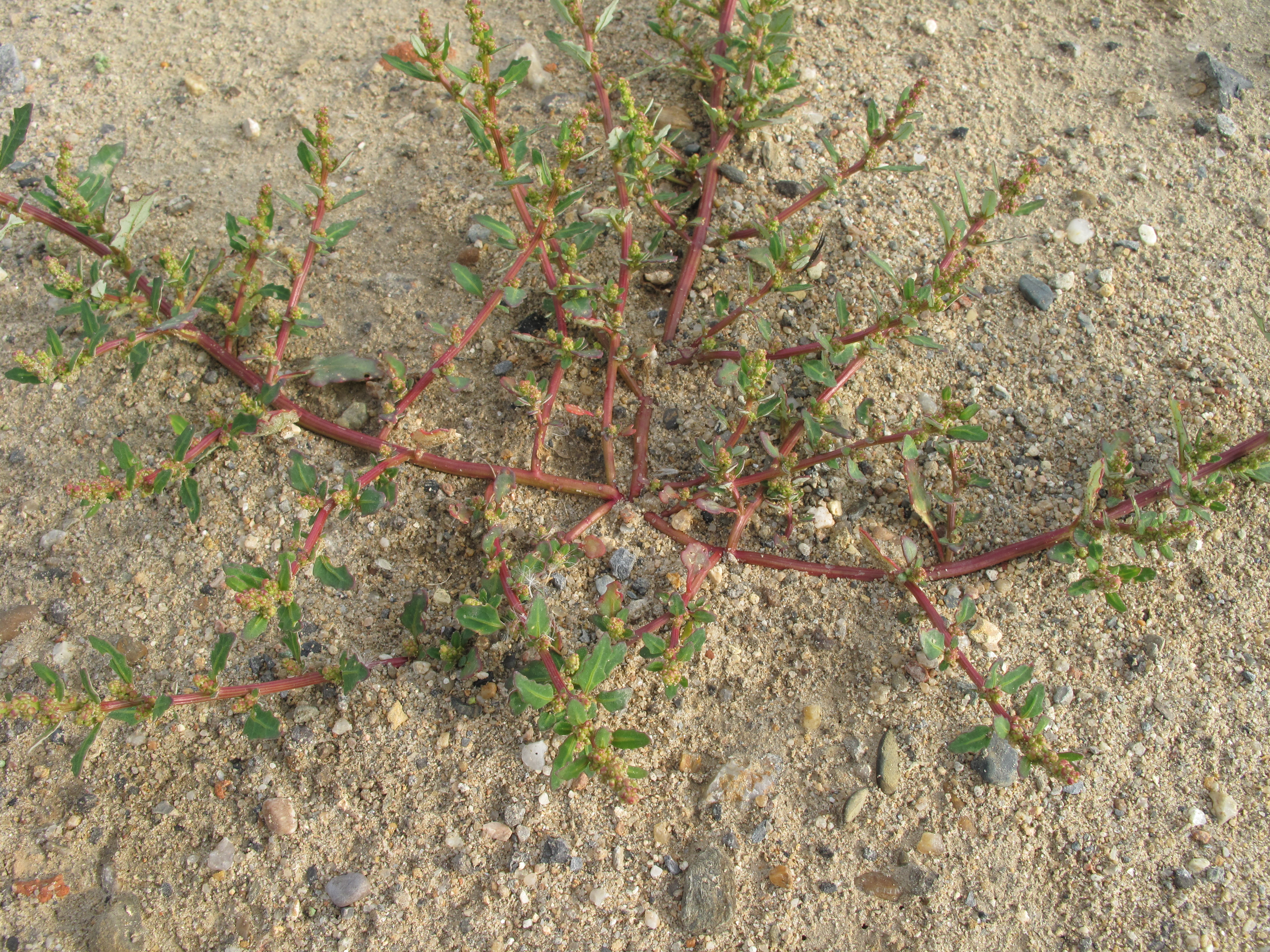 Chenopodium glaucum in Prague-Troja, Czech Republic.